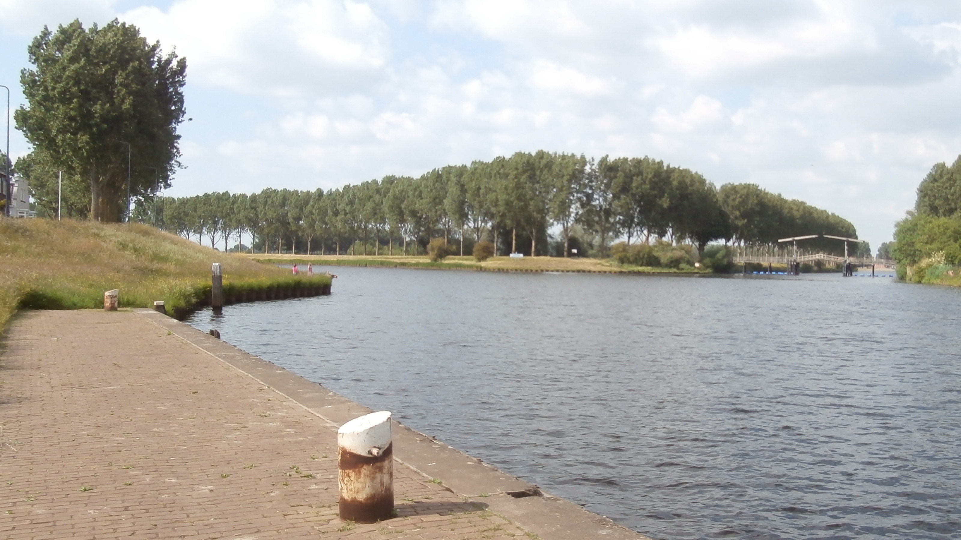 The Dieze from the quay of Engelen. View towards the north. On the left the Dieze Canal, on the right the Dieze with bridge.